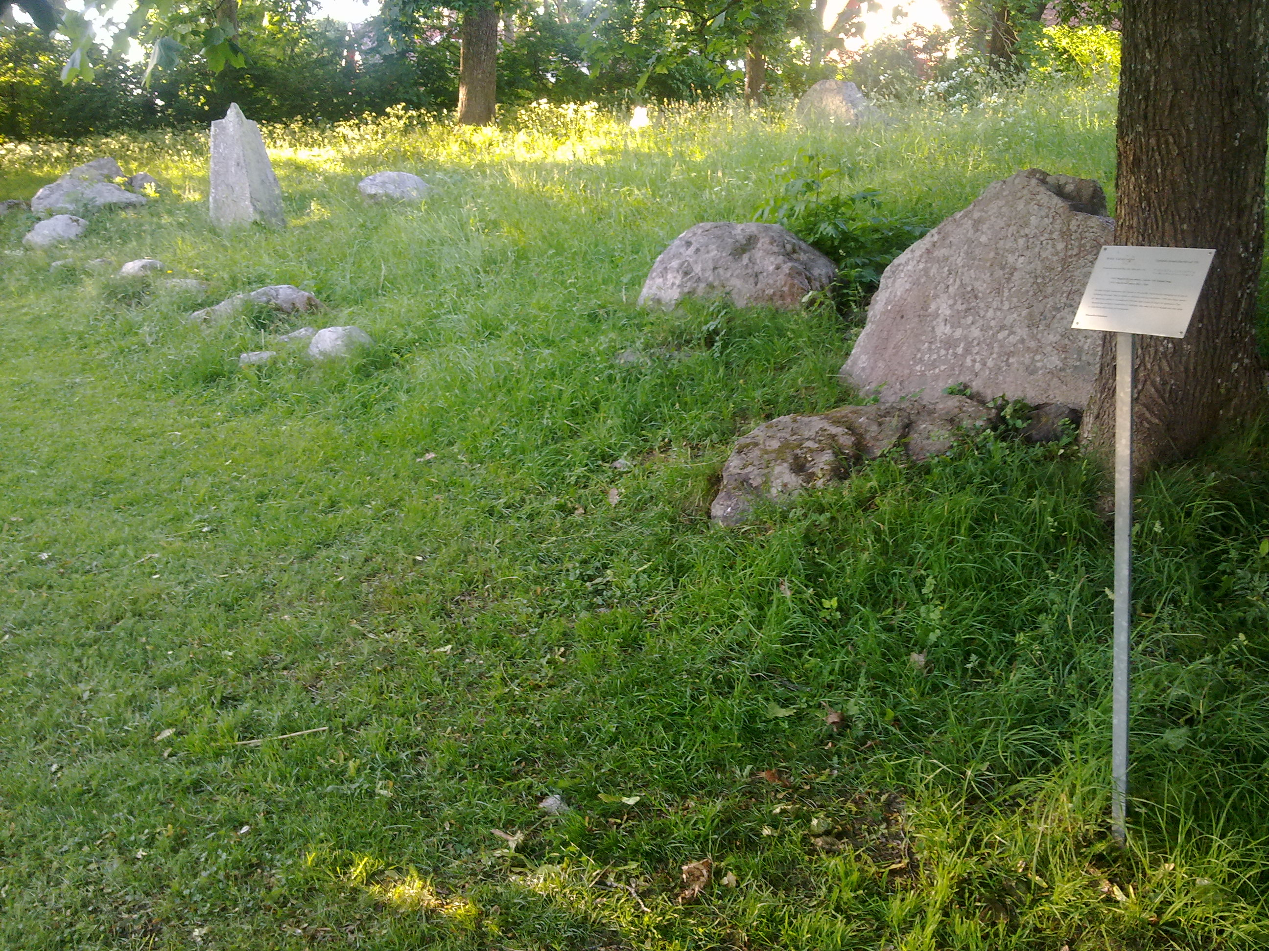 Rune-stones U 970 and U 969 in Årsta, Uppsala.